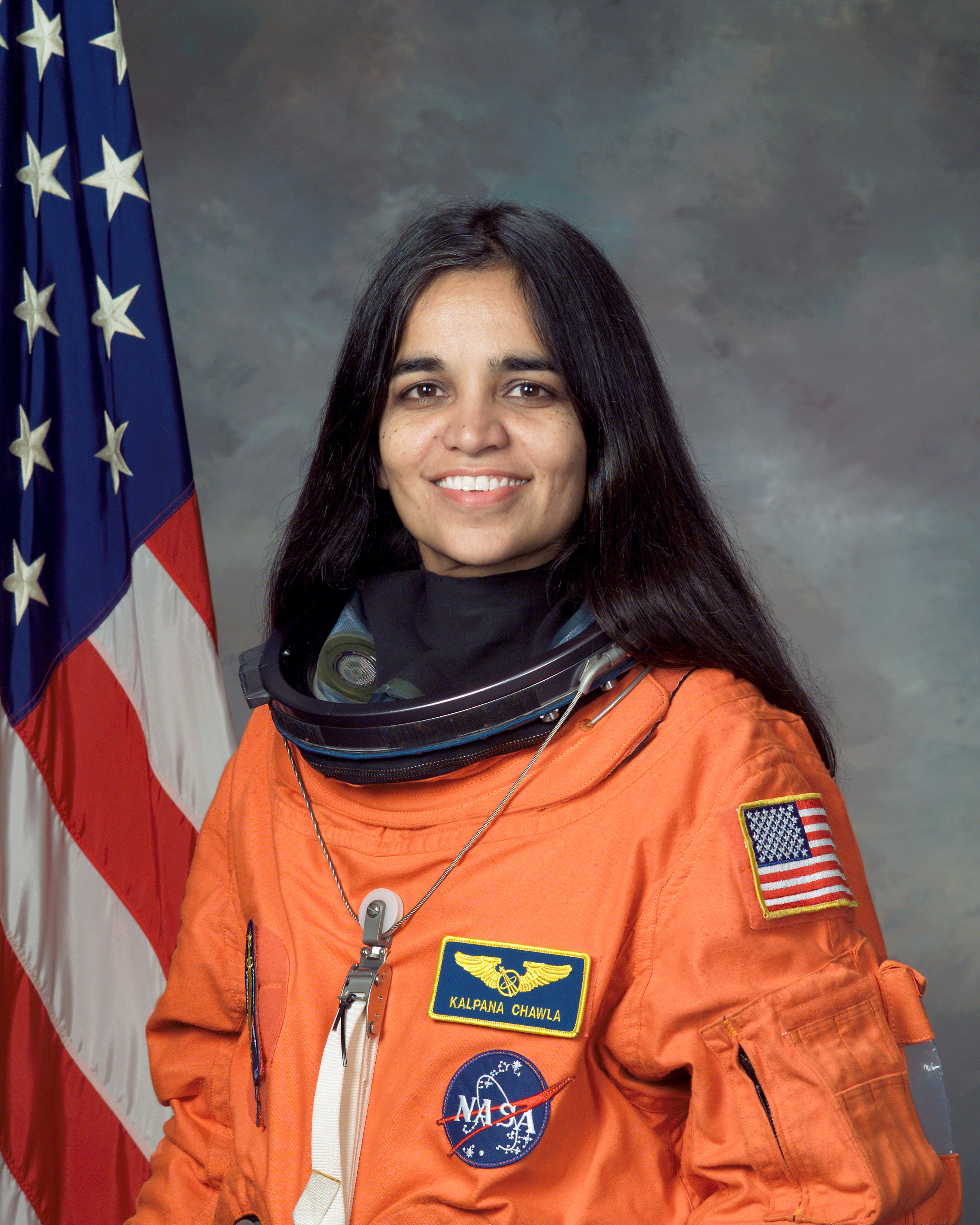 Kalpana Chawla, American astronaut who died during the failed re-entry of Space Shuttle Columbia.